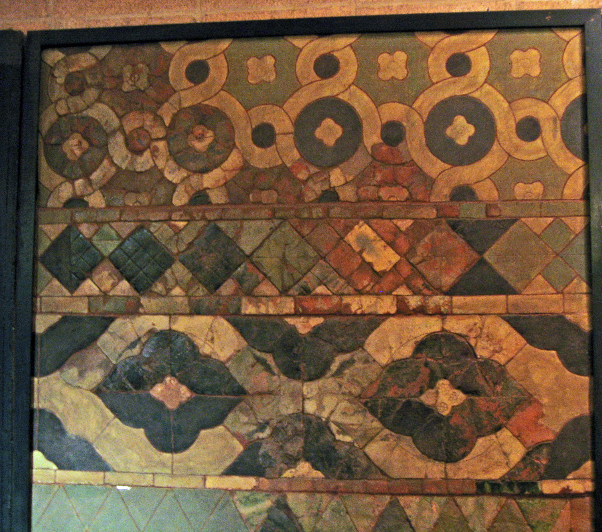 Photograph of a montage of mosaic tiles in Norton Priory Museum, near Runcorn, Cheshire, England